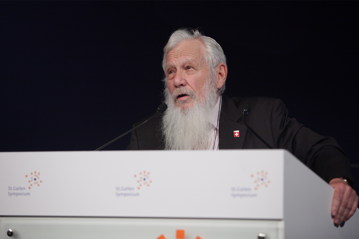 Robert Aumann in May 2009 at the 39. St. Gallen Symposium at the University of St. Gallen